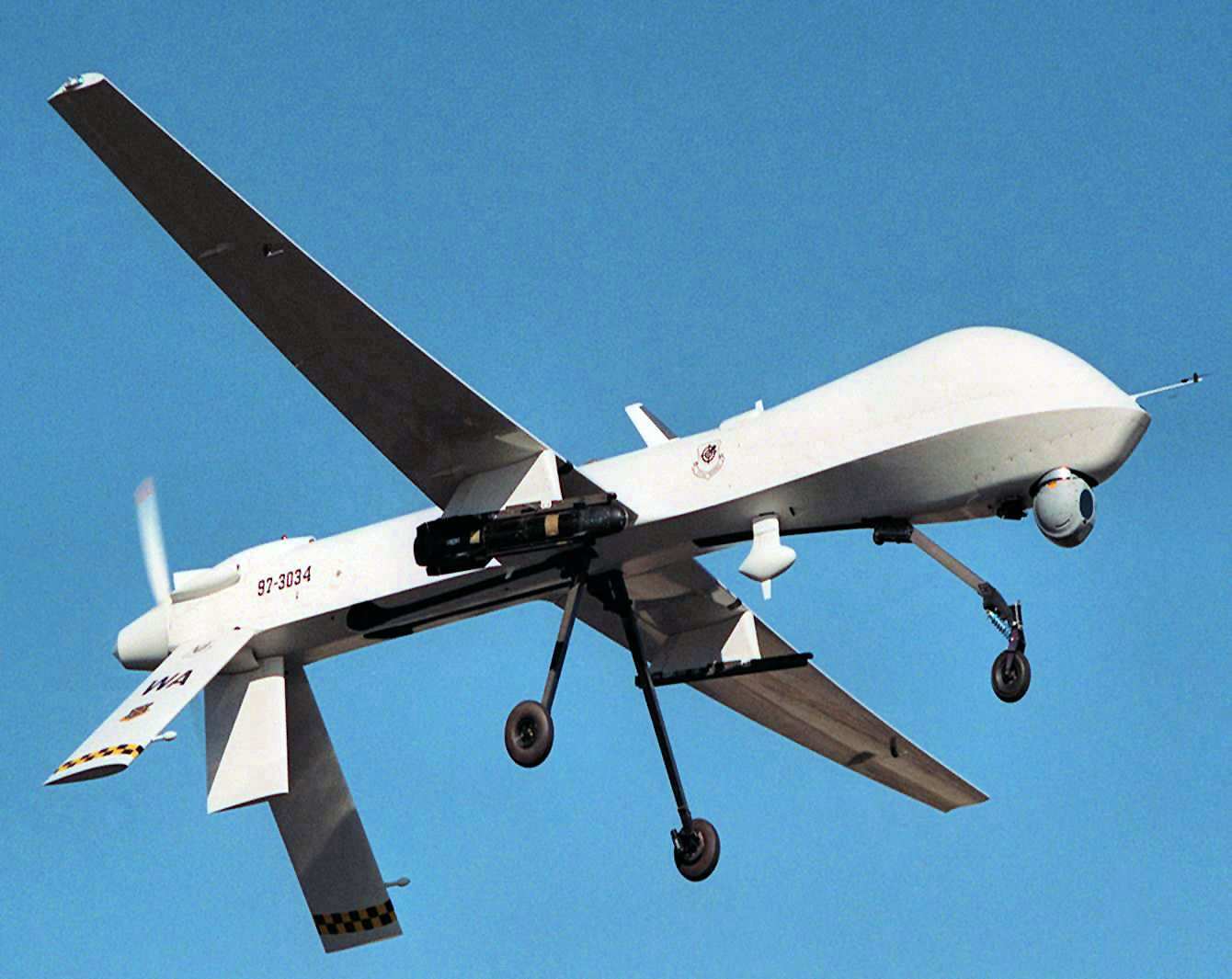 MQ-1 Predator 97-3034 - Nellis AFB